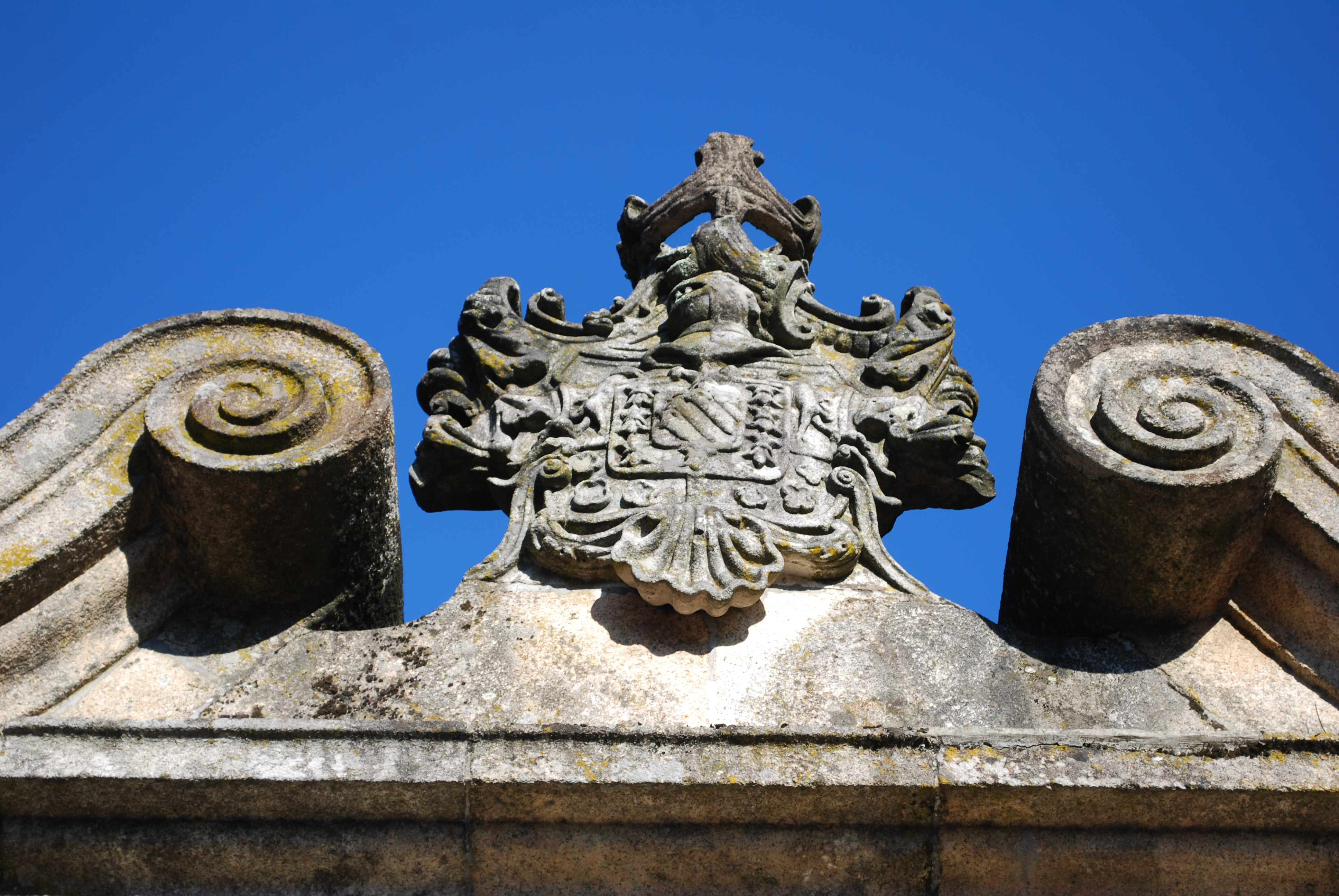 This file was uploaded for Wiki Loves Monuments in Portugal with the unique identifier 73770.